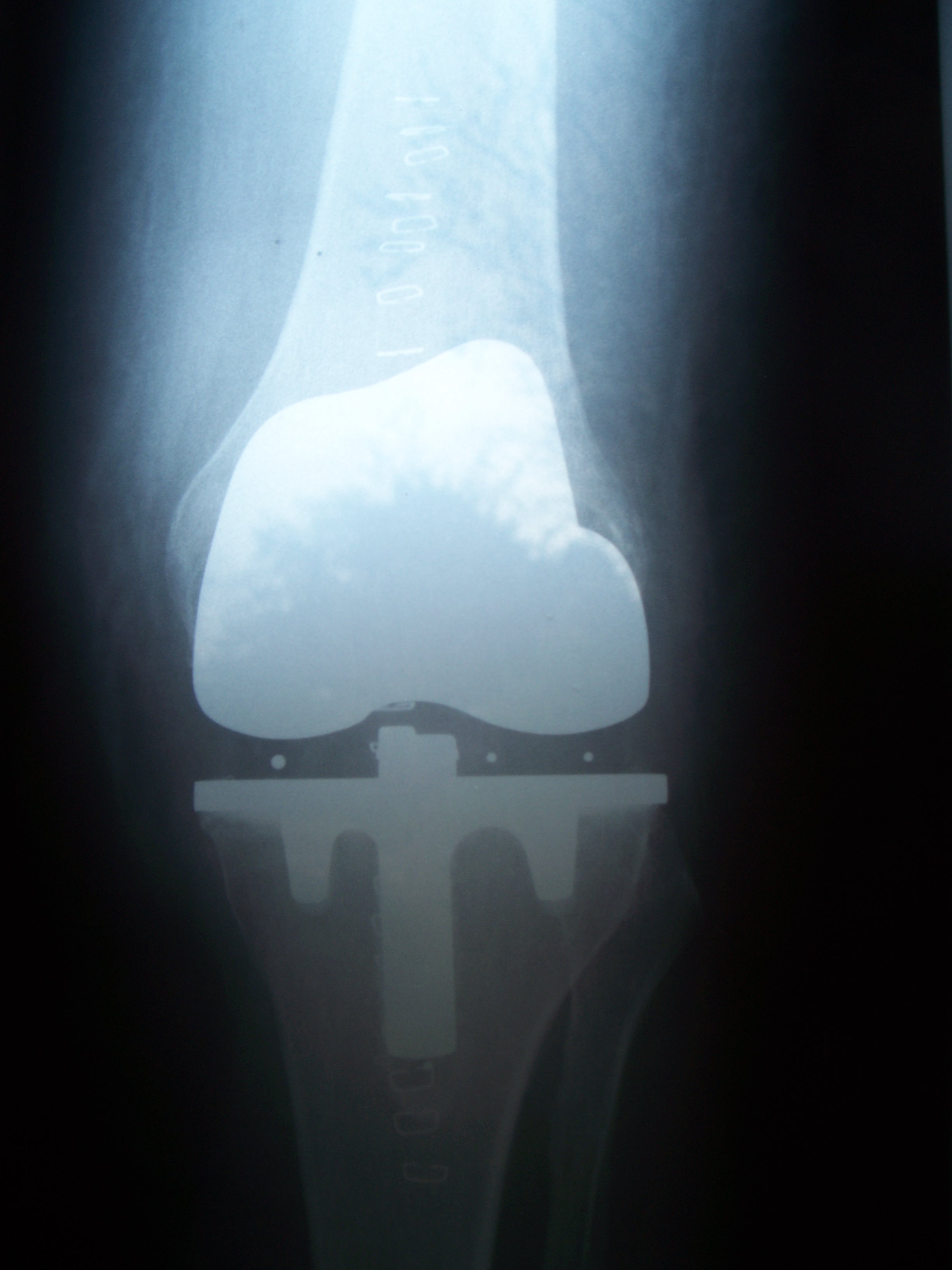 Total knee replacment, anterio-posterior plain X-ray view in a elderly woman.